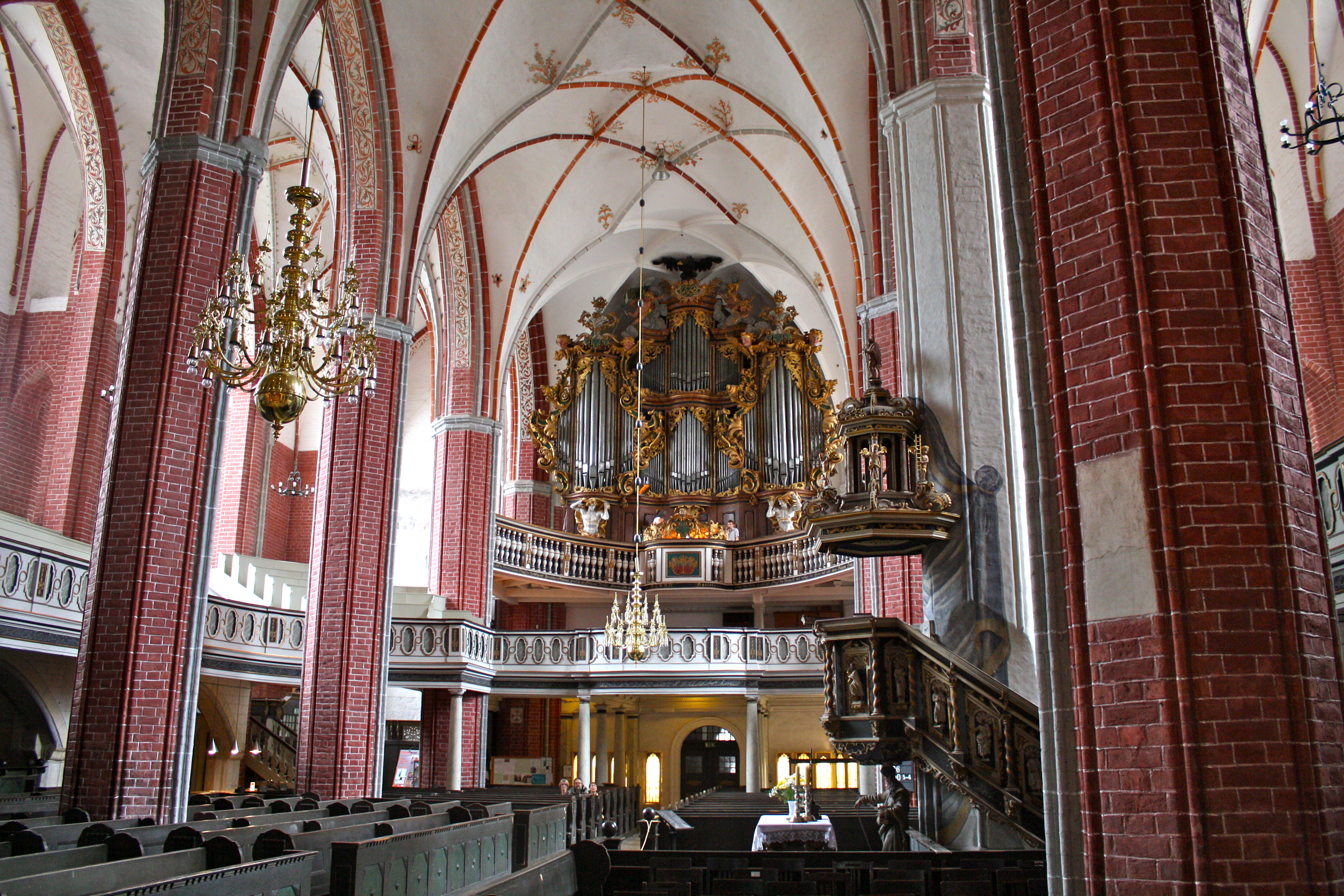 St Catherine's Church (Sankt-Katharinenkirche) in Brandenburg an der Havel